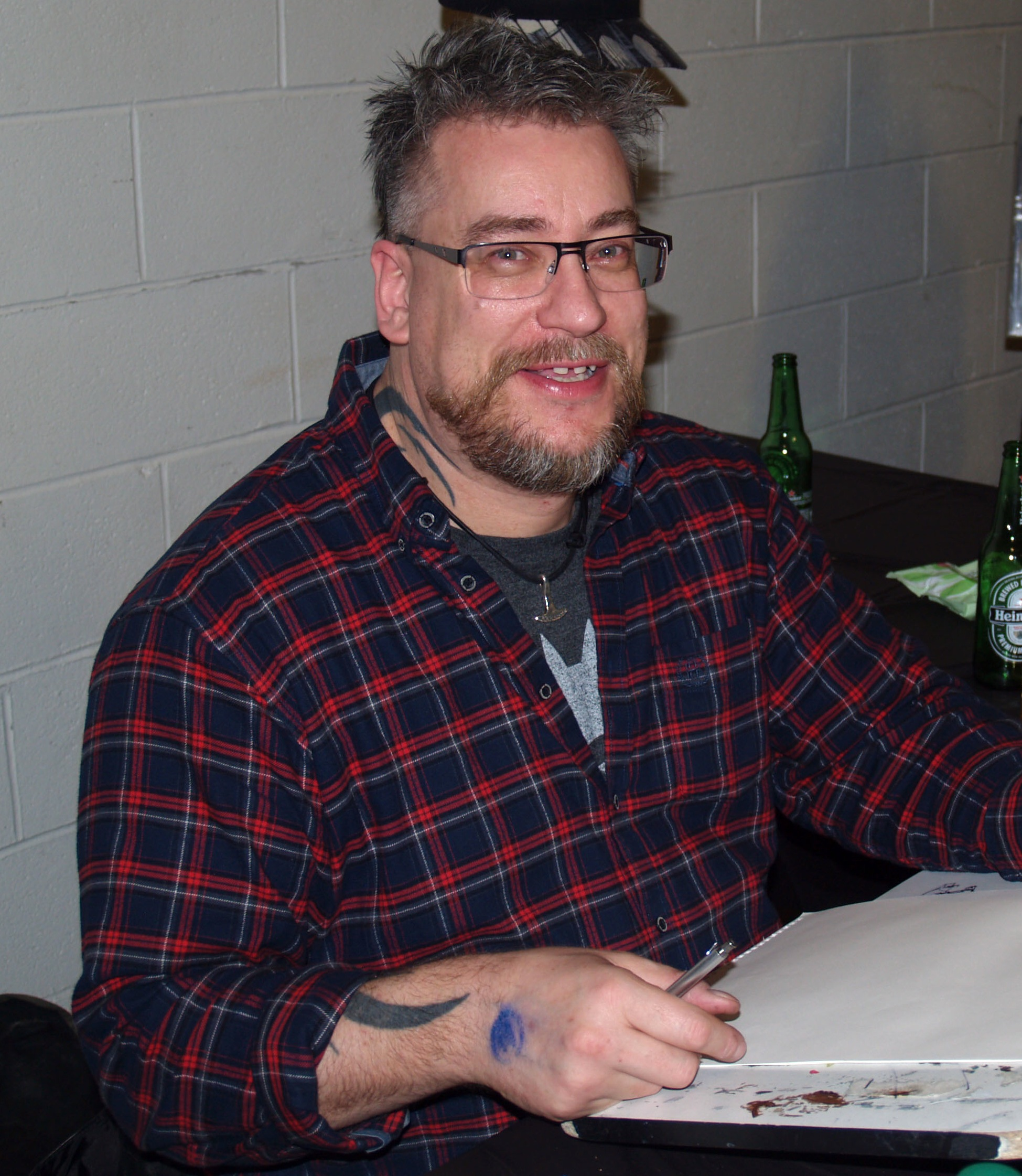 Comics artist and painter Simon Bisley at the Meadowlands Exposition Center in Secaucus, New Jersey on April 11, 2015, Day 1 of the 2015 East Coast Comicon. This photo was created by Luigi Novi. It is not in the public domain, and use of this file outside of the licensing terms is a copyright violation.